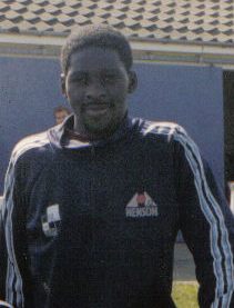 Association footballer Devon White, pictured during 1988 pre-season training for Bristol Rovers